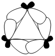 Modelo da Teoria da ligação de valência (TLV) do ciclopropano